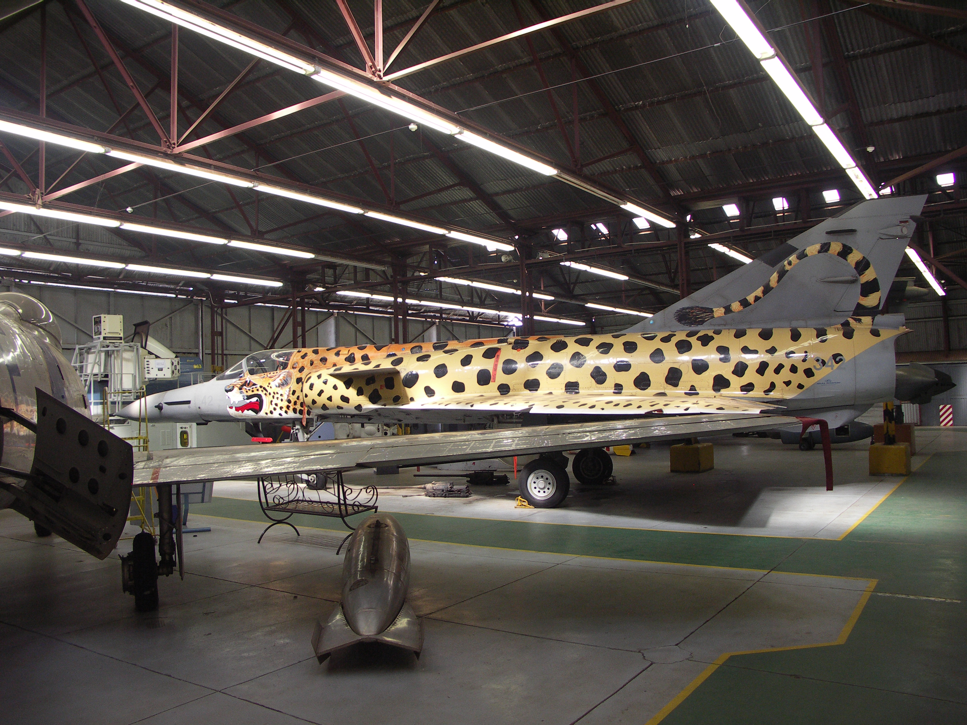 Cheetah showing its true colours at the South African Air Force Museum at Swartkop. The paint scheme was applied to no. 342 for the SAAF 75 celebrations in 1995 and earned the aircraft the nickname "Spotty".